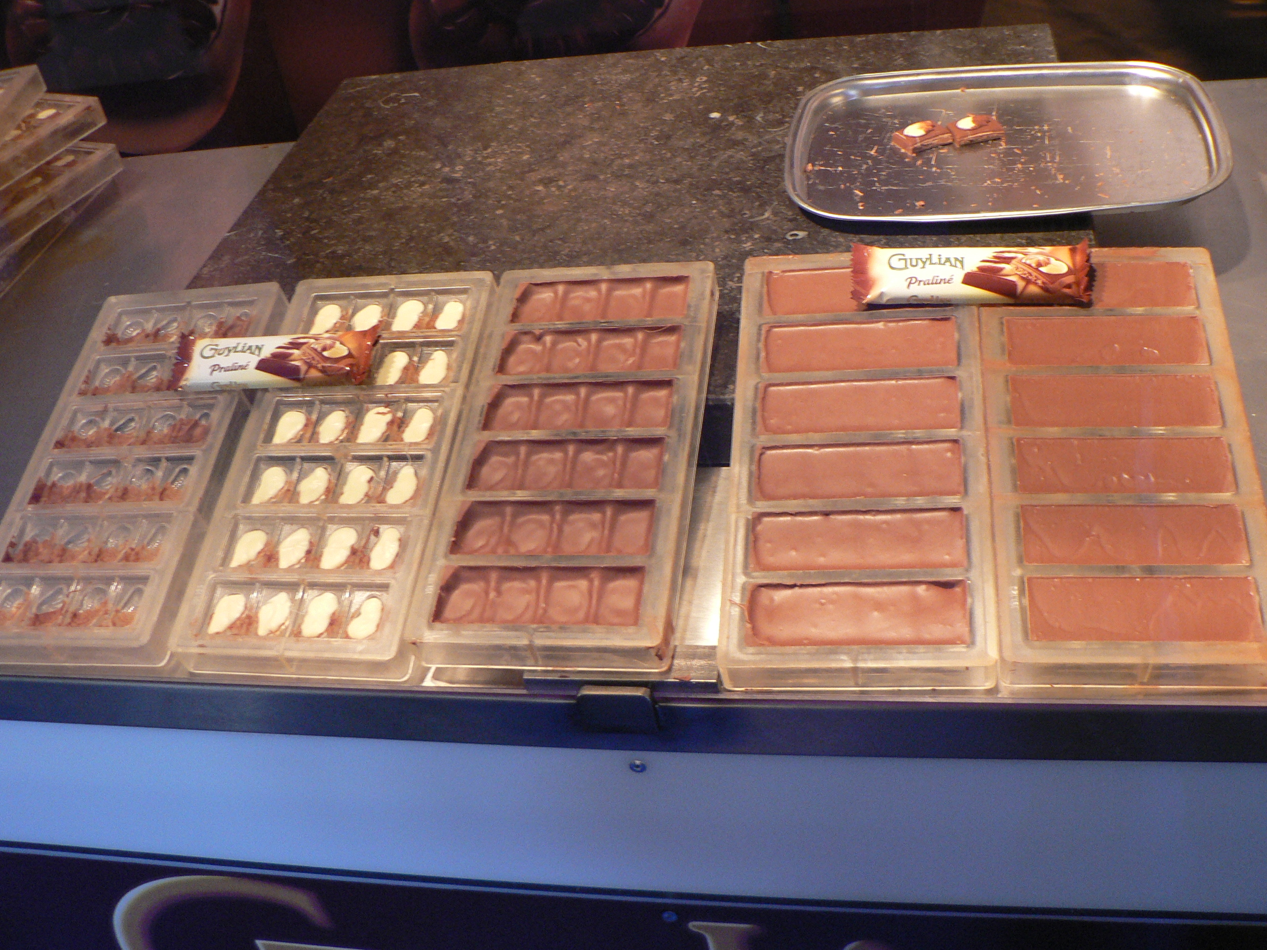 the making of GuyLian praliné chocolate bars